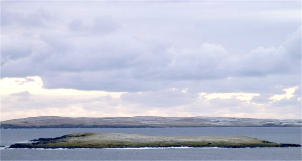 Haaf Gruney, Shetland Islands. The island of Haaf Gruney ('green island in the deep sea') from Ramnageo on Unst.